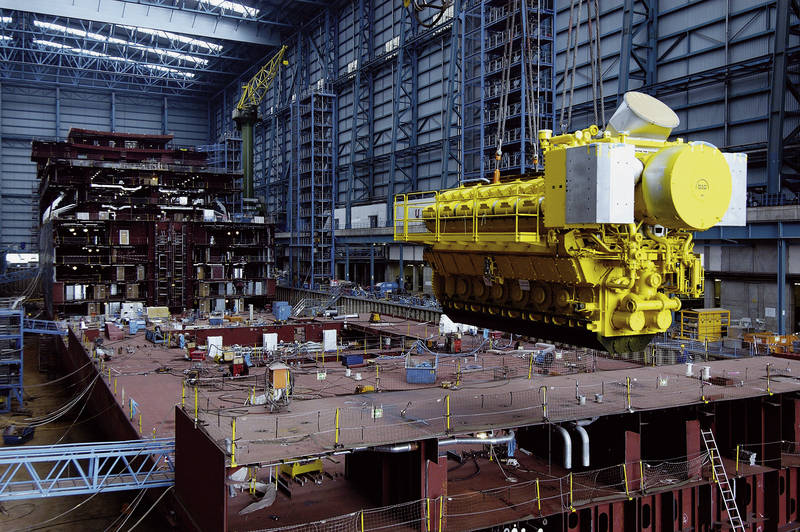 MAN Four-Stroke Engine.